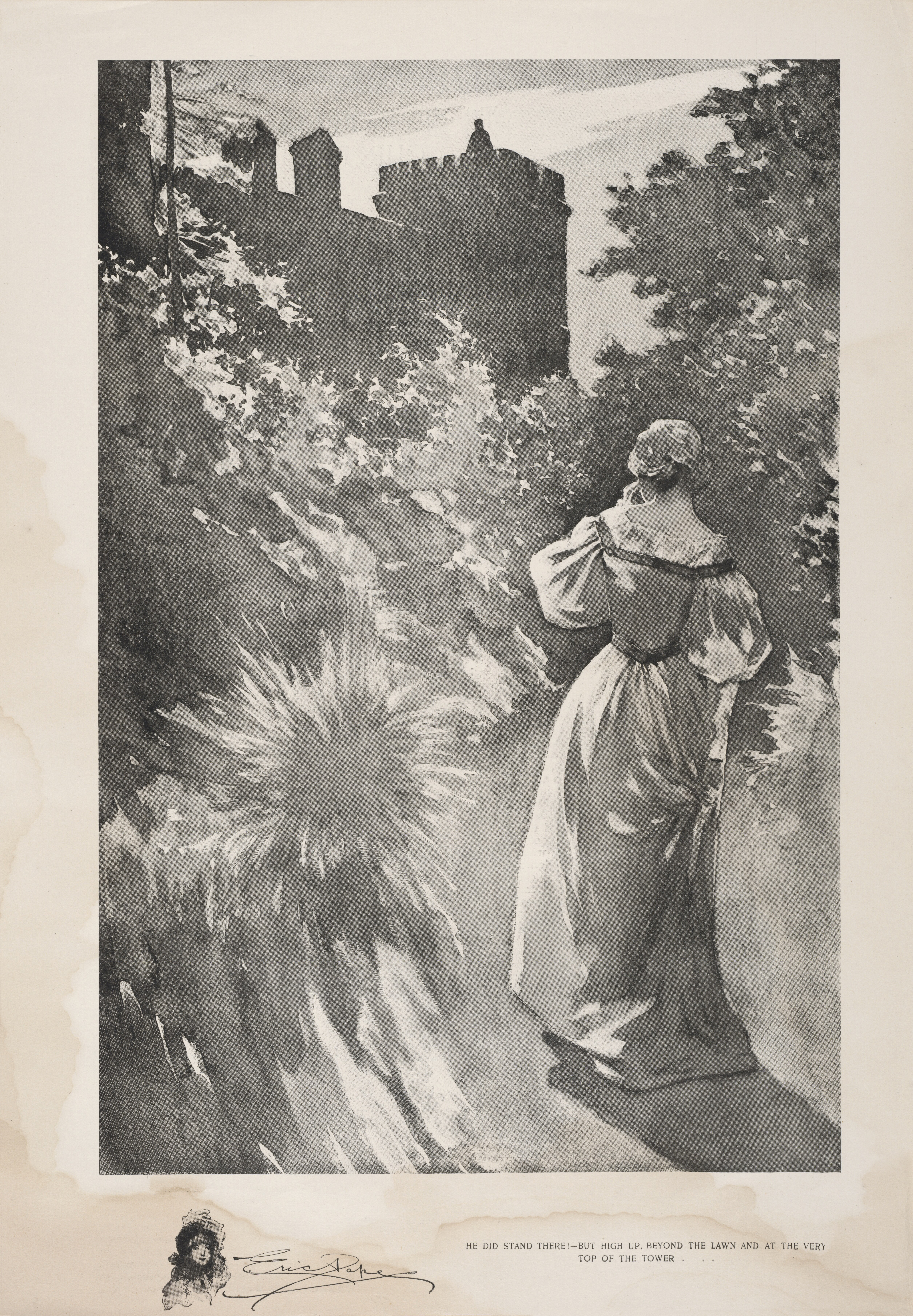 Illustration for the serialized printing of Henry James' novella The Turn of the Screw Caption: He did stand there!—But high up, beyond the lawn and at the very top of the tower ...